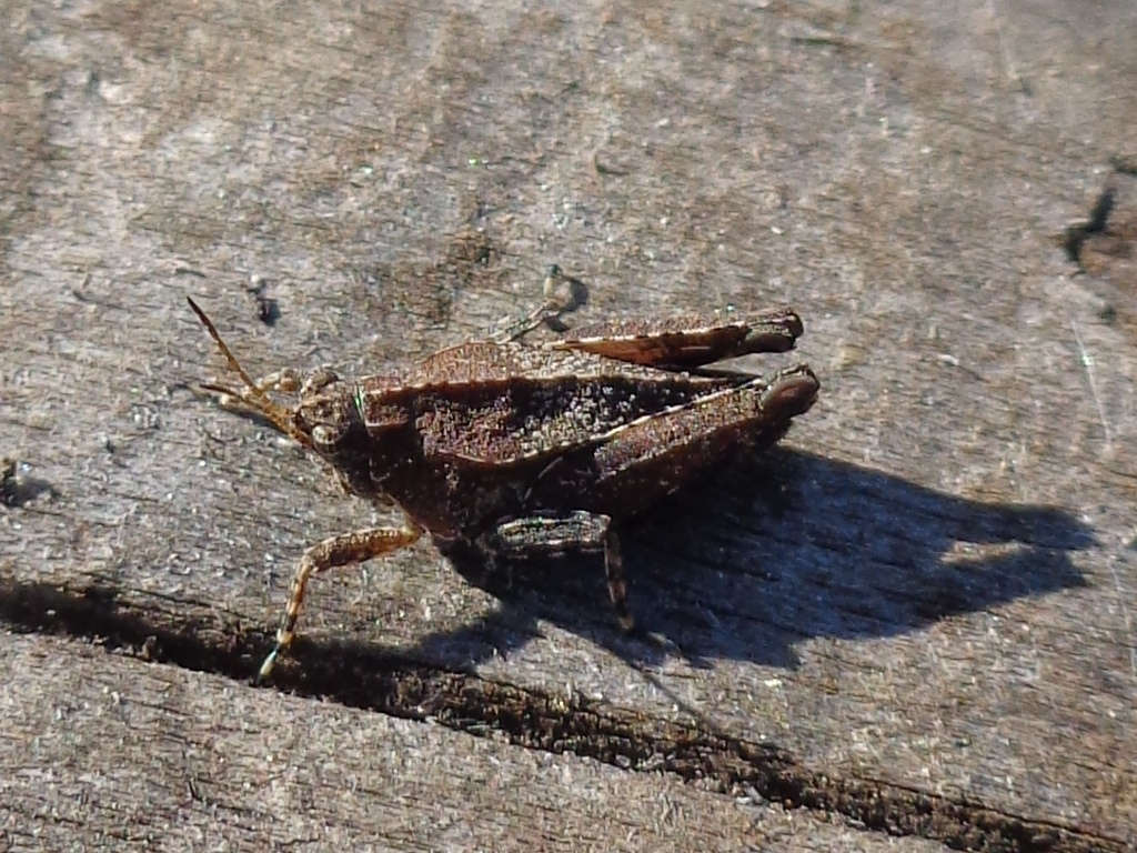 Tetrix undulata. Found in Riga town, Latvia